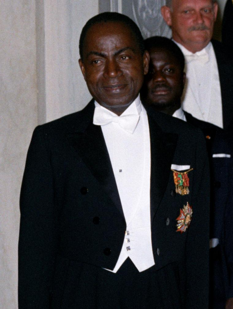 Depicted person: Félix Houphouët-Boigny – doctor, Ivorian politician, first president of Côte d'Ivoire